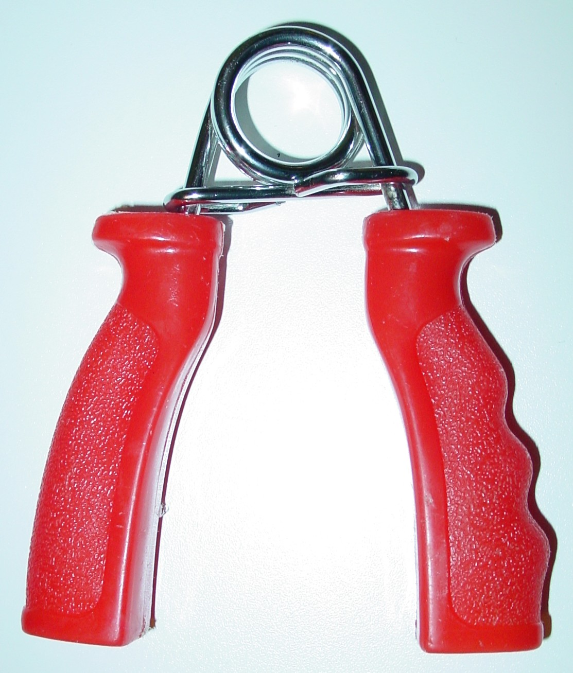 A typical sports-store hand gripper. (del) (cur) 01:34, 30 January 2006 . . Elfer (Talk) . . 1113x1308 (266111 bytes) ( GFDL A typical sports-store hand gripper. Photo by Elfer.)